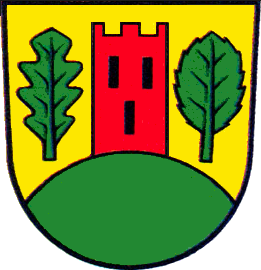 Coat of Arms of Straufhain